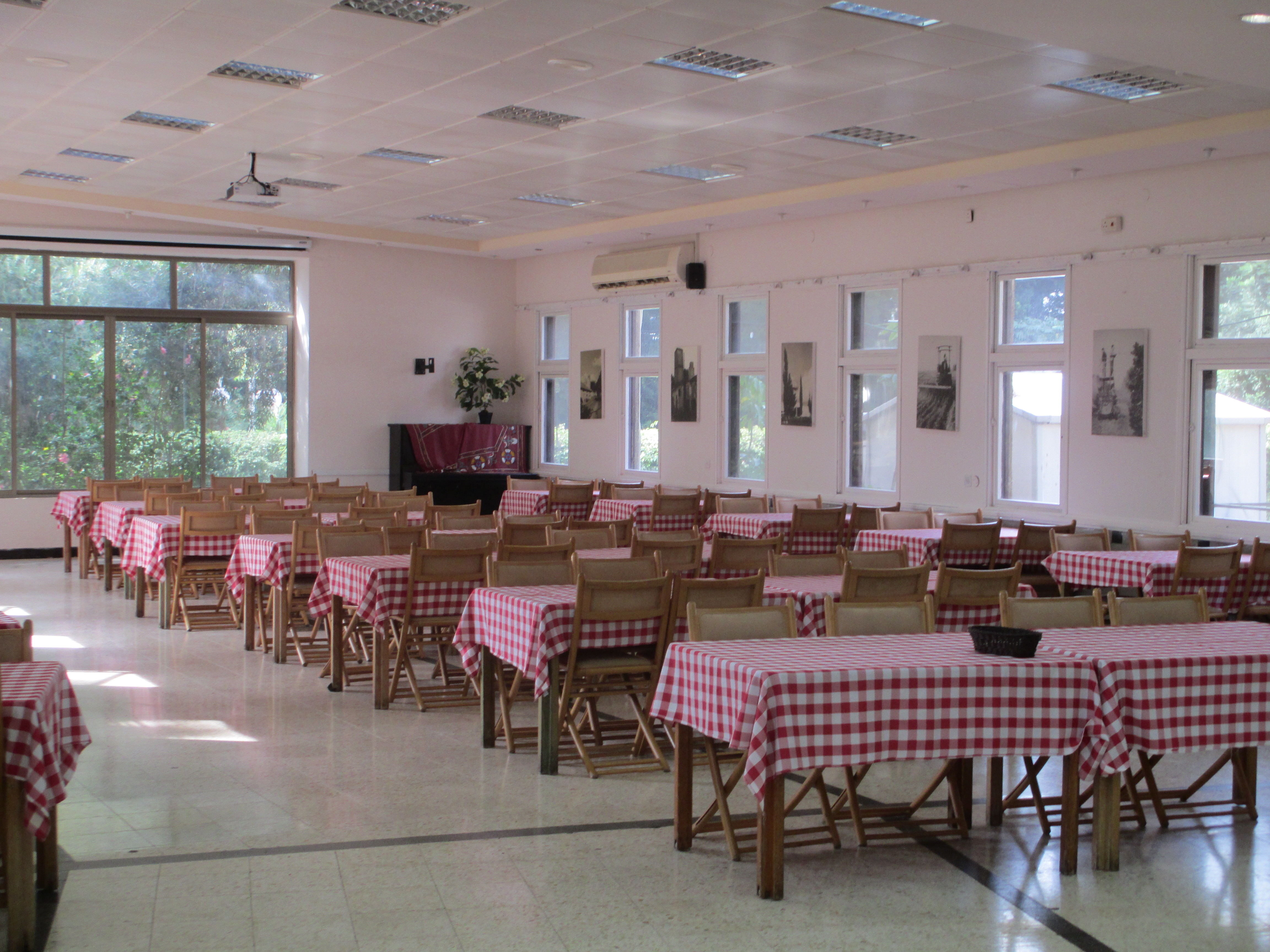 Dining room in kibbutz Ramat HaKovesh